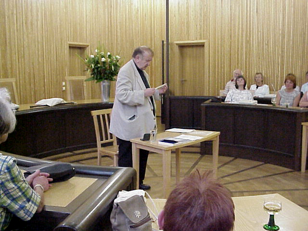 Alexander May in court